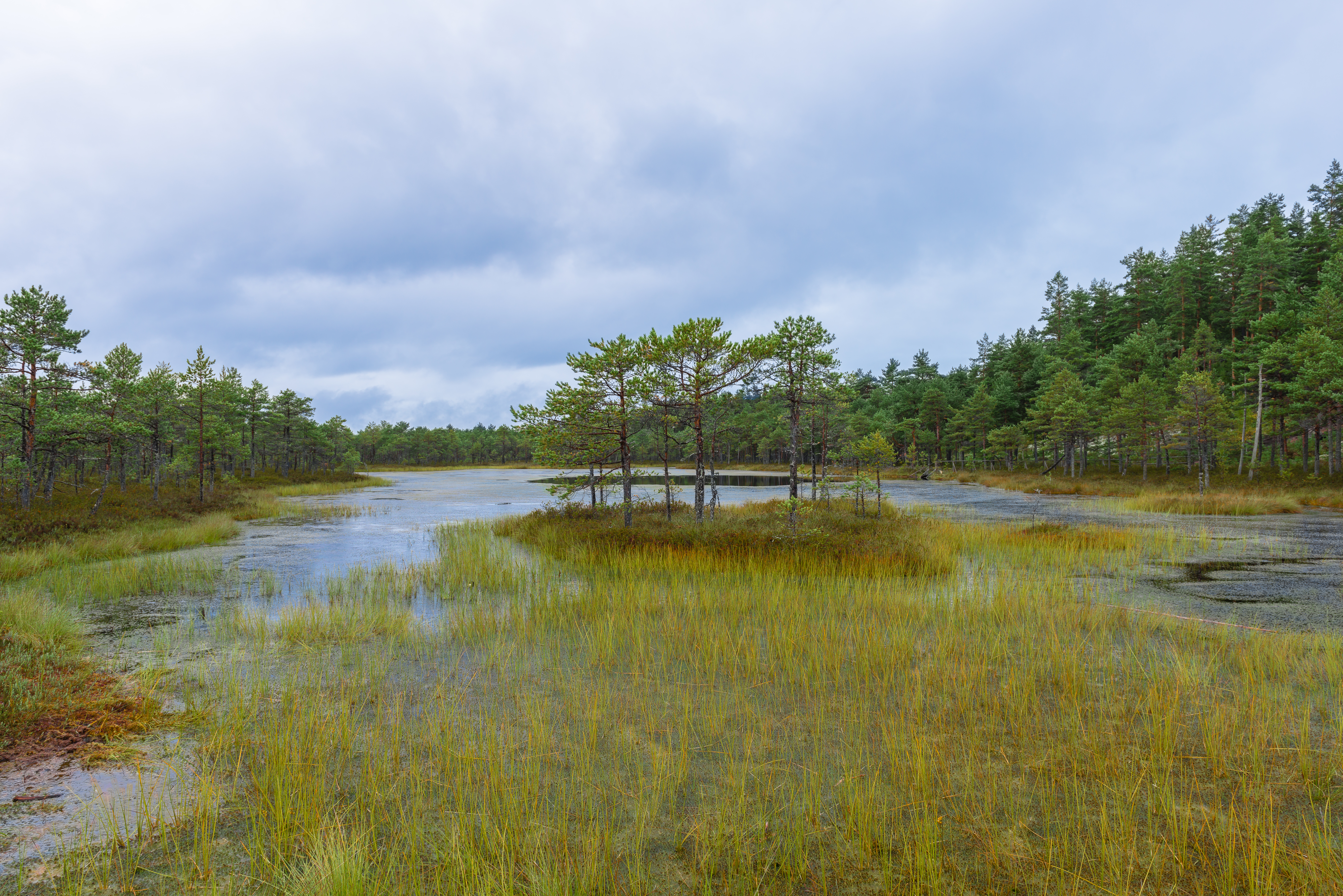 Bog pool at Meenikunno Bog, Estonia